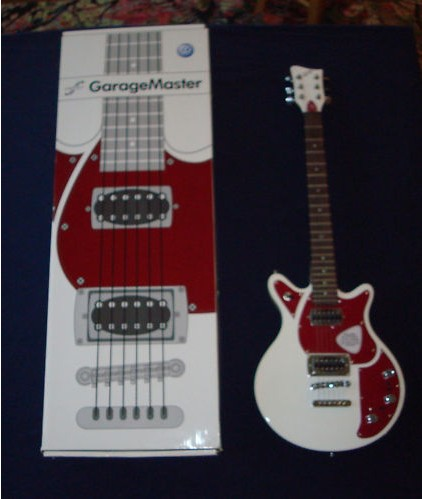 Volkswagen first act new guitar